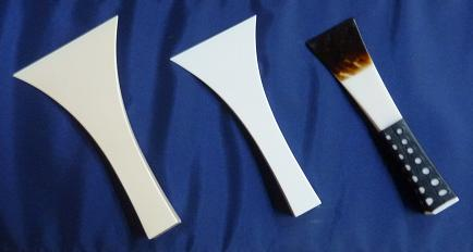 A picture comparing different kinds of bachi, otherwise known as plectrums for the Japanese three-stringed lute, or Shamisen.